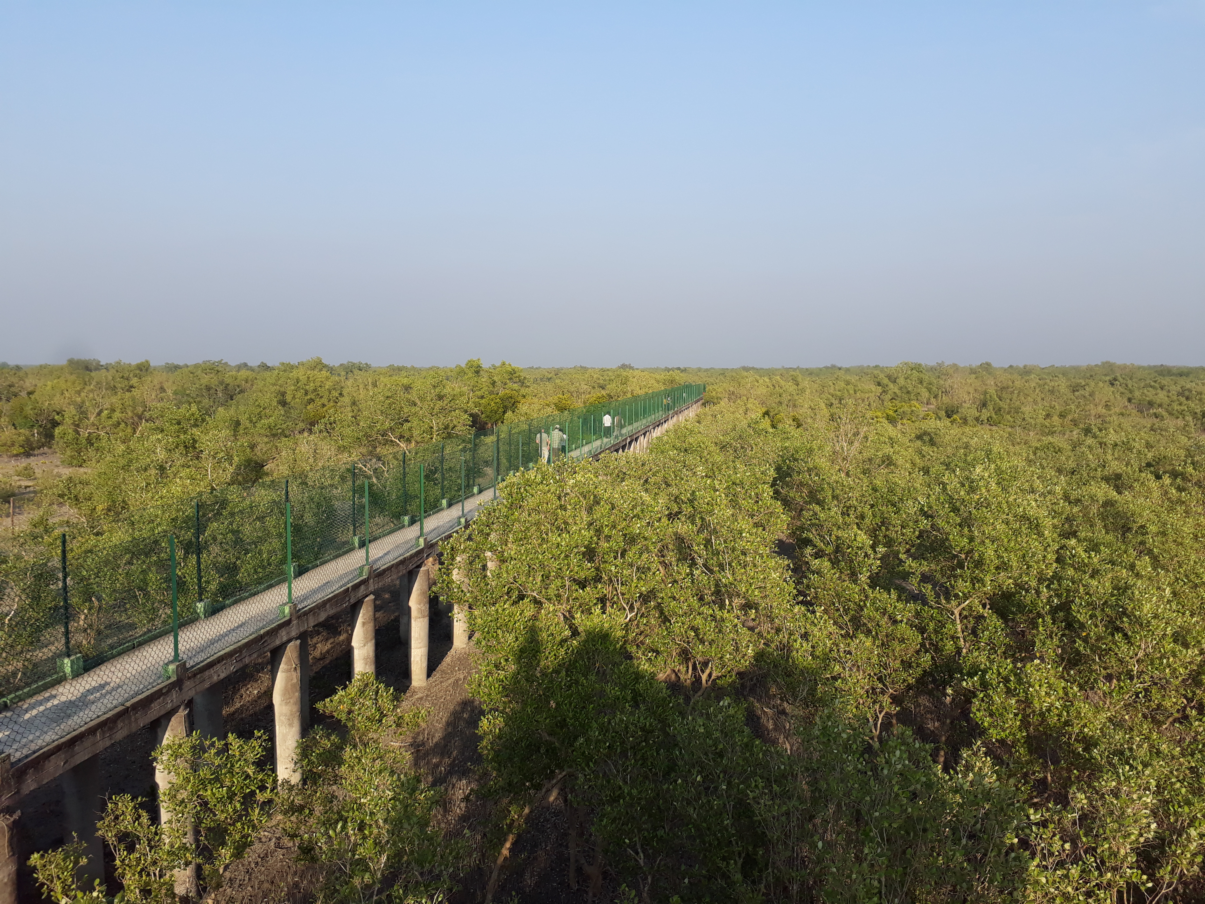 Sajnekhali wildlife sanctuary and others part of Sundarbans in West Bengal